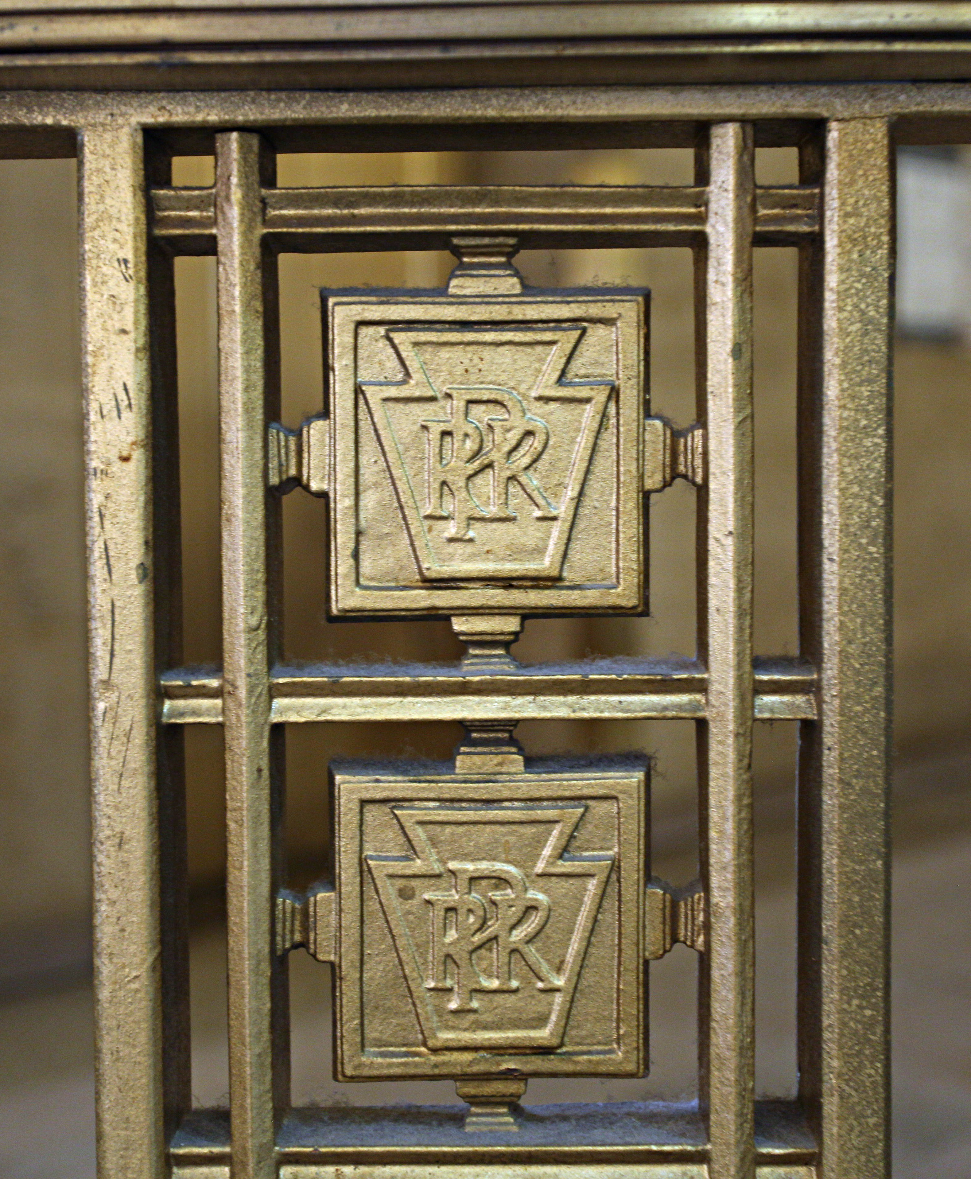 PRR Herald 30th St